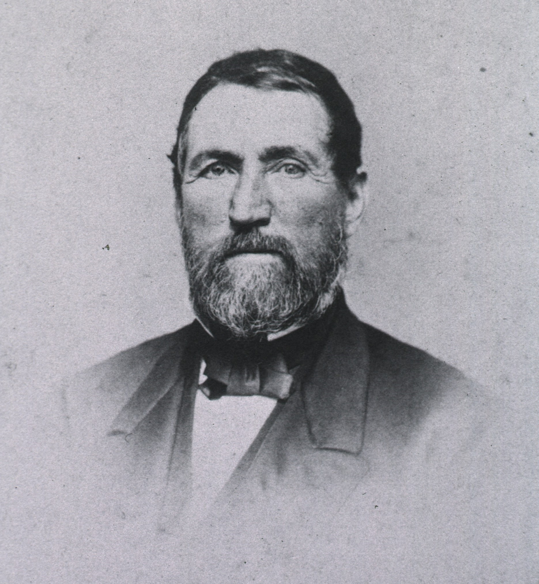 Madison Mills